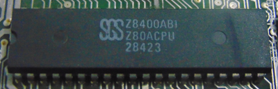 ZX Spectrum 48K SGS Z8400AB1 Z80ACPU 28423. Zilog Z80A microprocessor second source